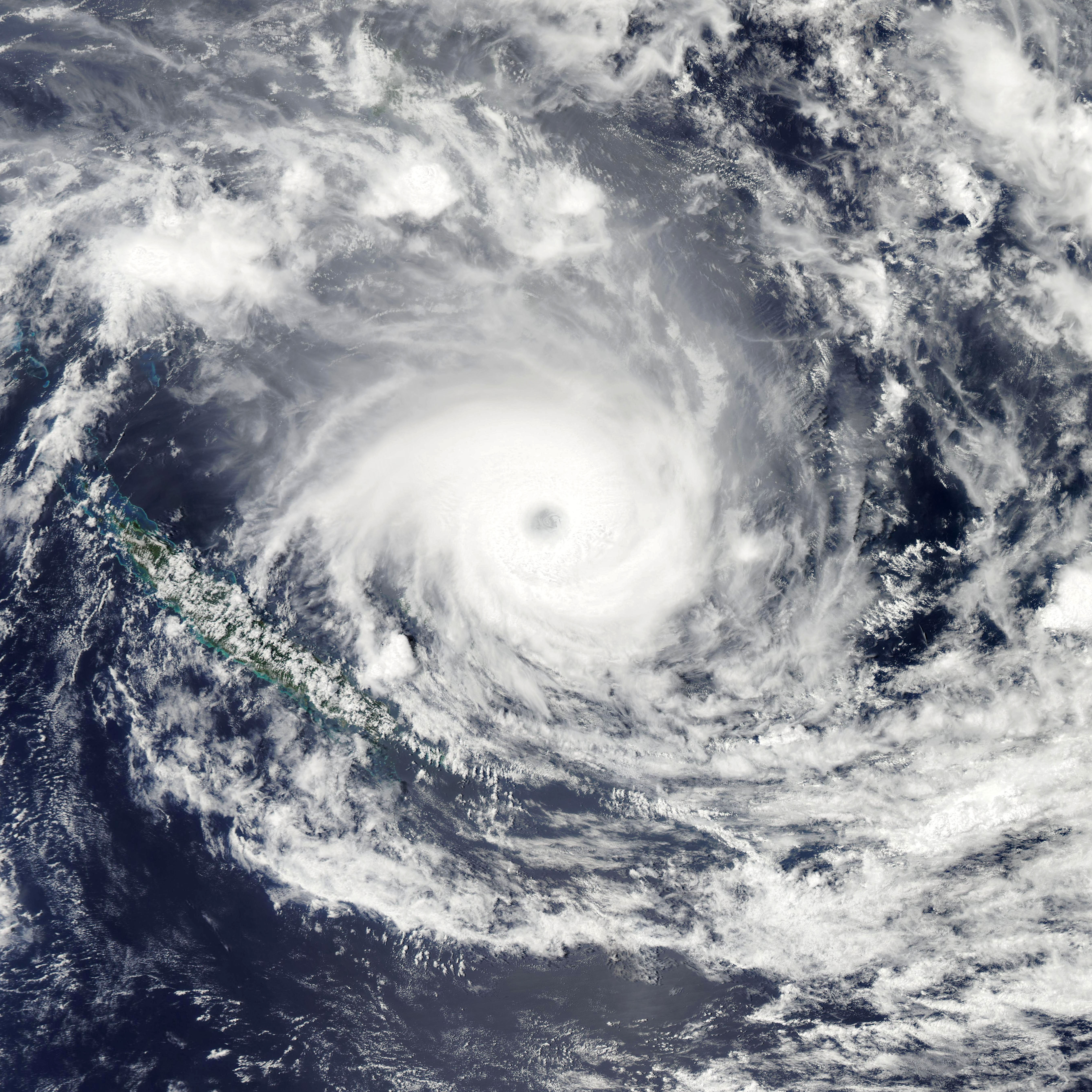 Severe Tropical Cyclone Jasmine on February 8, 2012